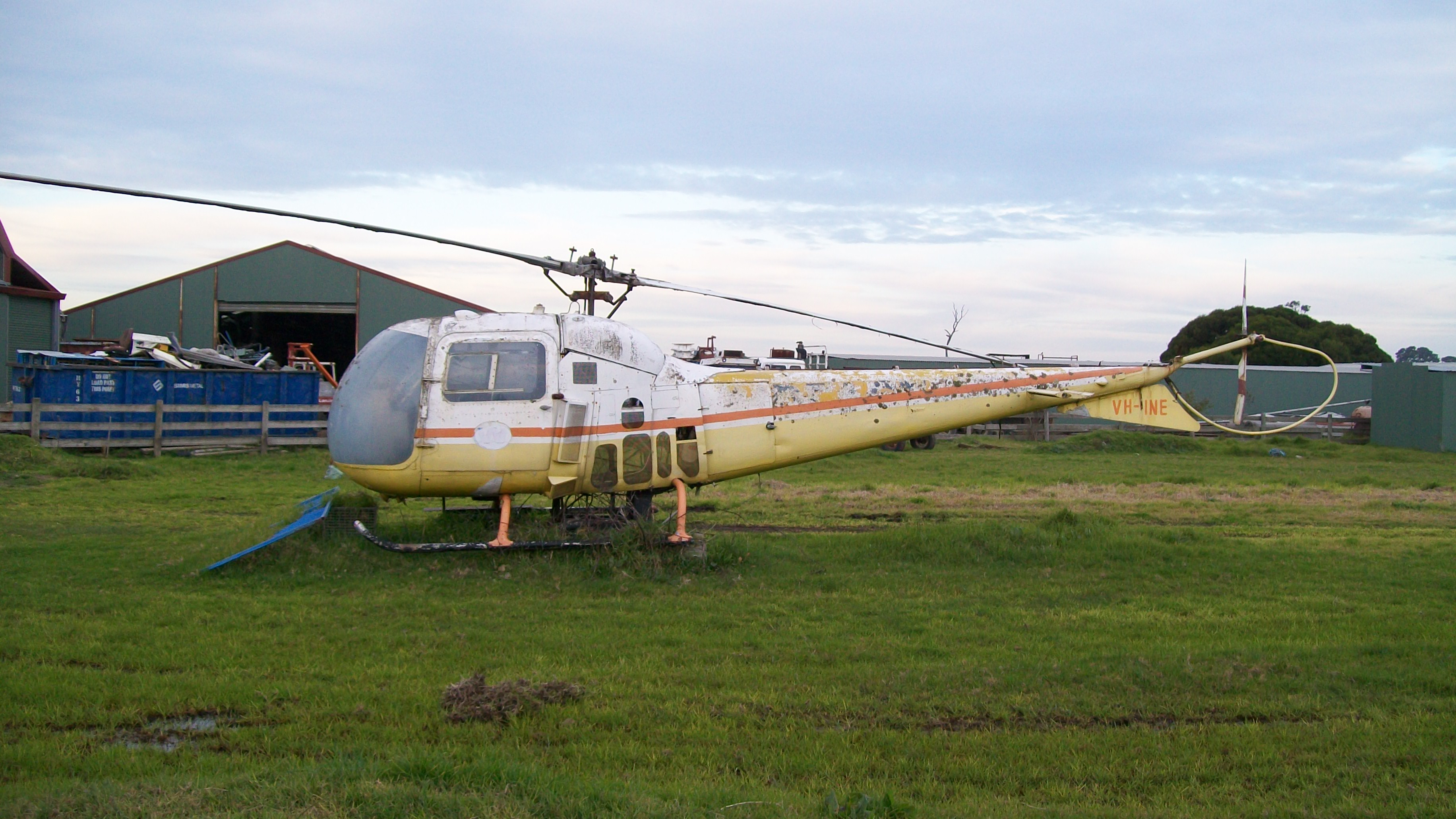 Photo of the the former Wobbies World Bell helicopter located on Frankston-Dandenong Road, Lyndhurst. "One of half a dozen purchased by Ansett-ANA in 1959/60. It was sold in 1968 and had several owners until withdrawn from service in 1976." - [1]